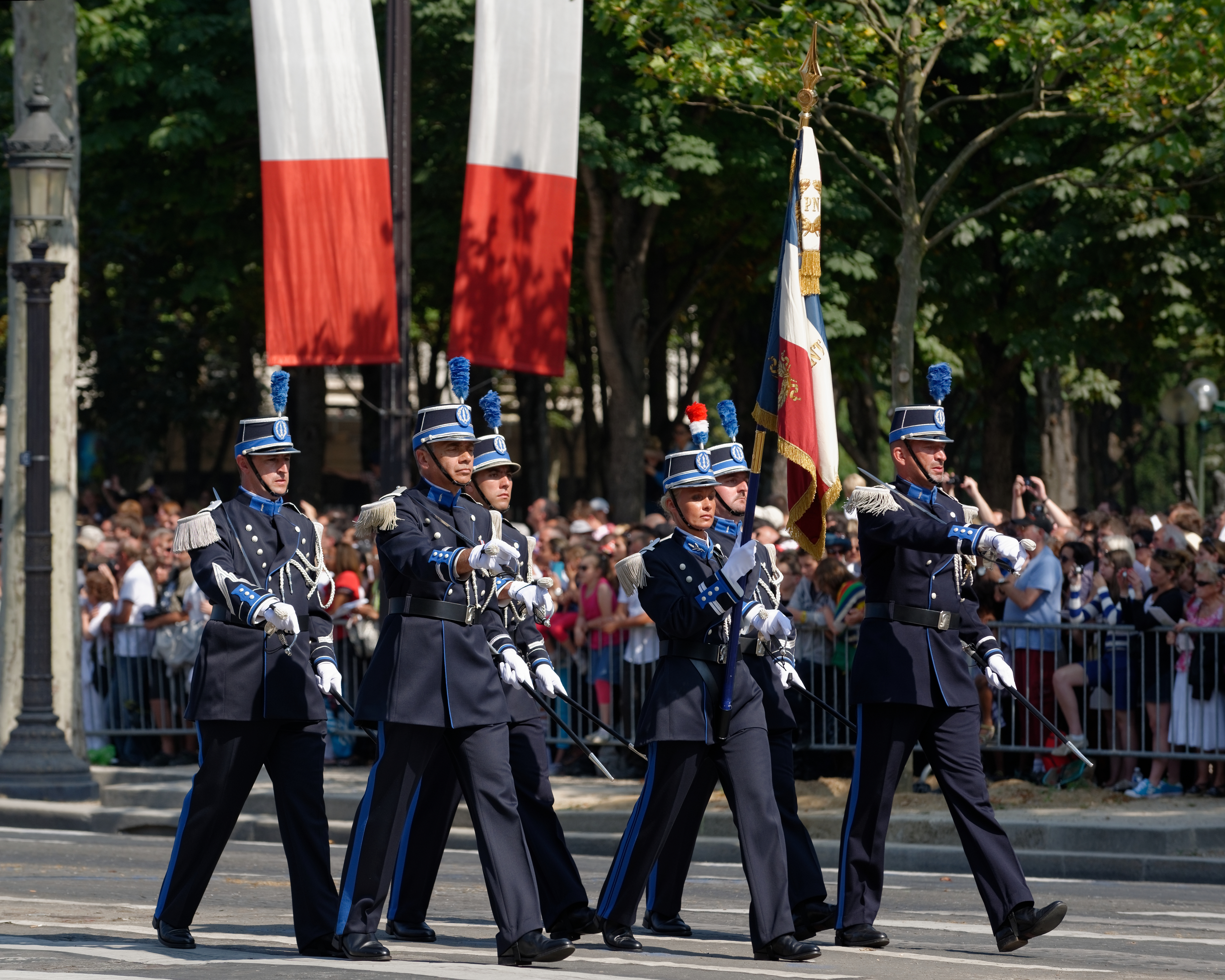 Colour guard of the General Directorate of the National Police in the Bastille Day 2013 military parade on the Champs-Élysées in Paris.